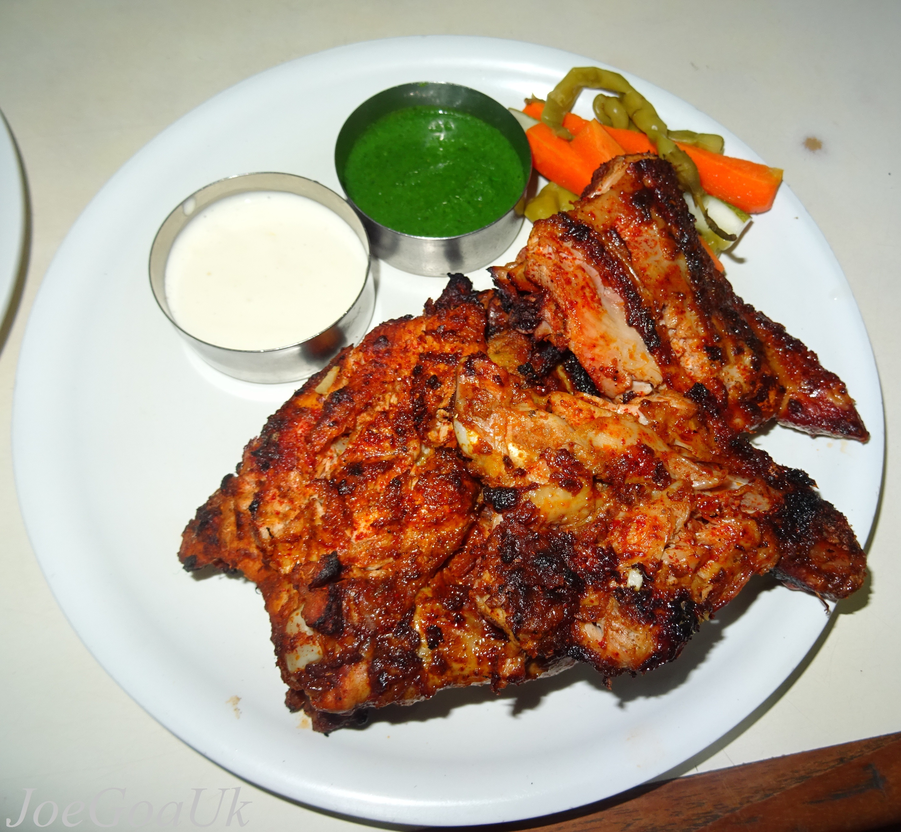 Chicken half Rs.180 come with two pita bread and sauces, salad Al faham grilled Mutto Husna El Dorado Plaza, Panaji Market